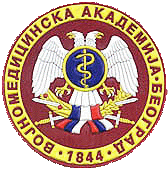 VMA (Vojnomedicinska akademija - military medicine academy) logo used from 1992 until 2006.